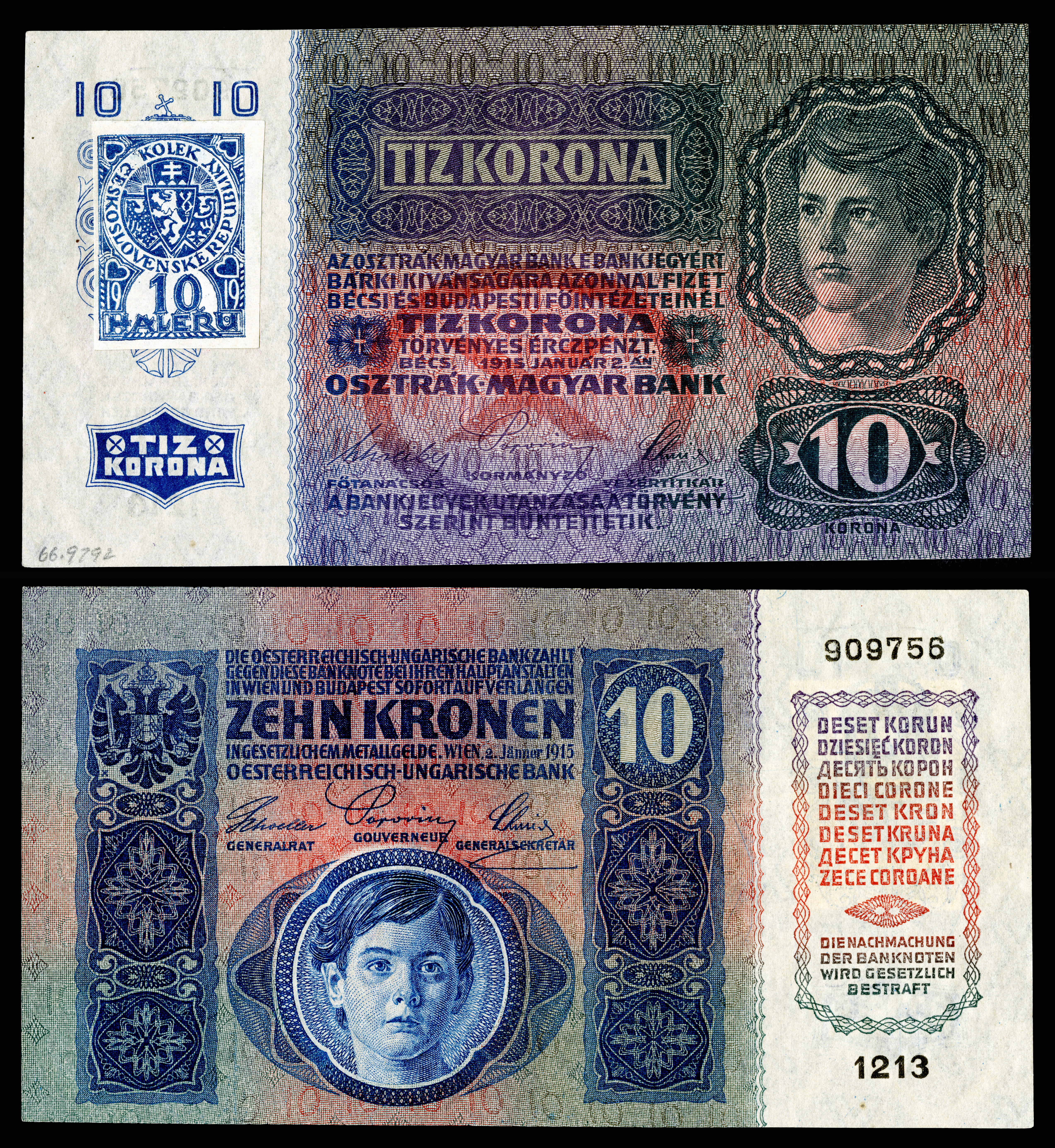 Republic of Czechoslovakia, 10 koruna, 1919 Provisional issue (using a 2 January 1915 Austro-Hungarian note). The first Czechoslovakian banknote issue.The 1919 provisional issue of Czechoslovakian banknotes used a 1915 Austro-Hungarian Bank issue. By affixing an adhesive stamp equal to 1/100 the value of the note (i.e., 1 koruna = 100 haleru) to the left front side, this served as validation of legal tender status in the Republic of Czechoslovakia. Following currency reform, the first regular issue banknotes were printed with a date of 15 April 1919.